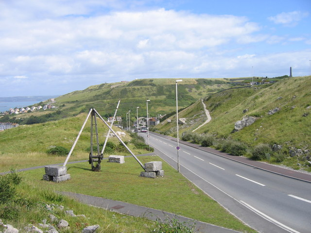 Priory Corner, Isle of Portland. From approximately where the bus is, New Road was diverted away from the cliff edge in 1996; there is a near-hairpin bend just out of shot to the right. At this point Portland stone brought out of the quarries in the north-west part of the Isle were transferred to the Merchants Tramway for onward passage to Castletown and shipment. The crane in the foreground was erected in 1997 to commemorate this exchange point. The tramway contoured along the hillside from the top of the buff path to the right of the road and is the lower step (immediately above the crane jib) across the Verne hill in the distance. At the white houses it descended a rope-worked incline to the harbour. The upper step below the summit marks the course of a dry vertical-walled "moat" around the prison inside the hill.